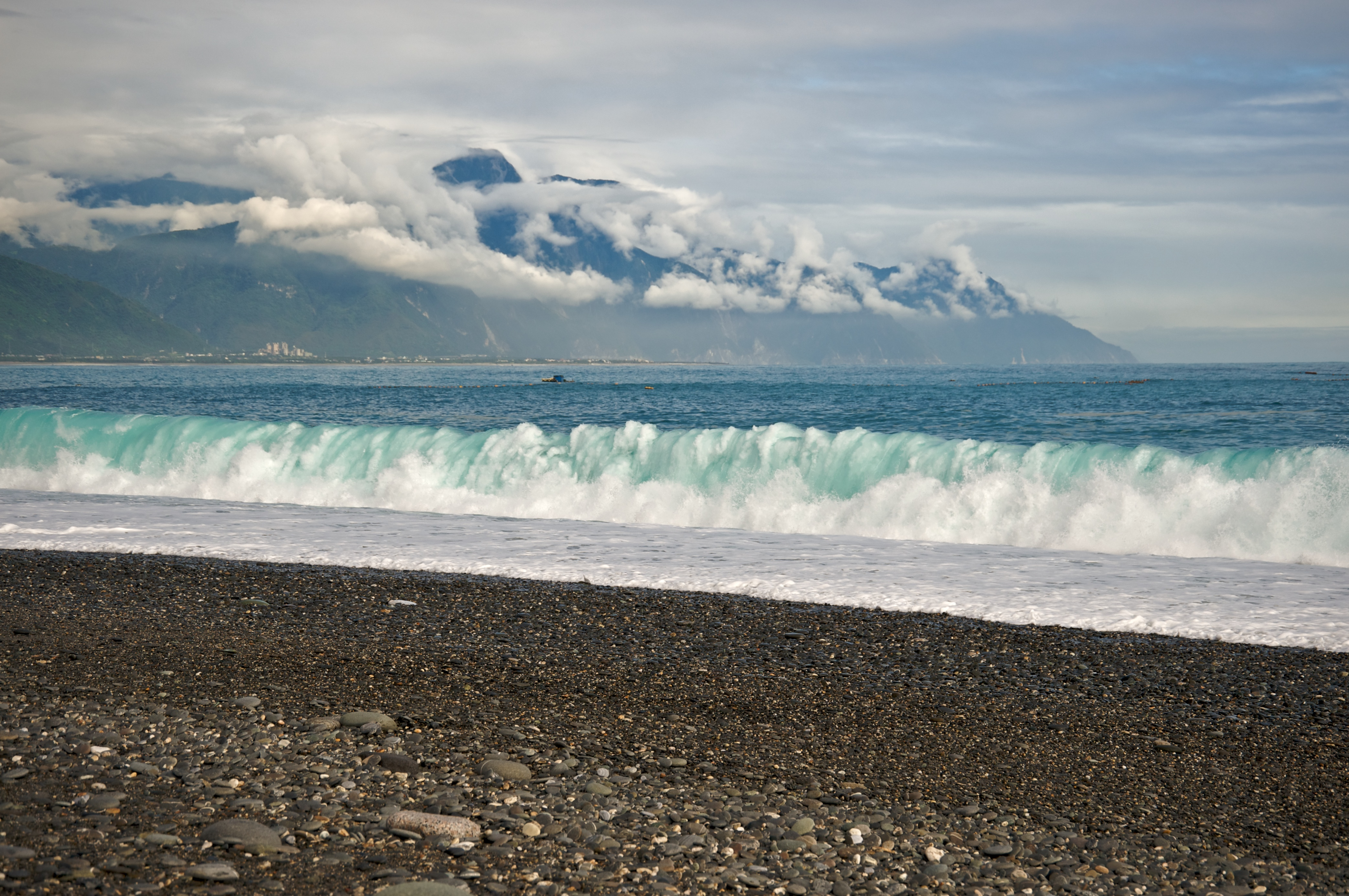 CiSingTan Bay with Fixed-net fishing operations close to shore, and the Central Mountain Range in the background, in Hualien County in Taiwan